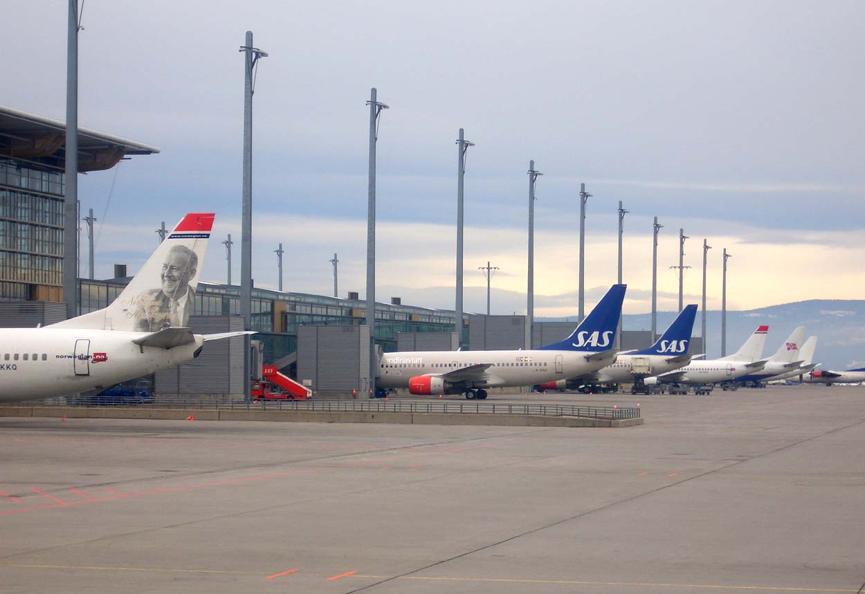 Oslo Airport extrior view